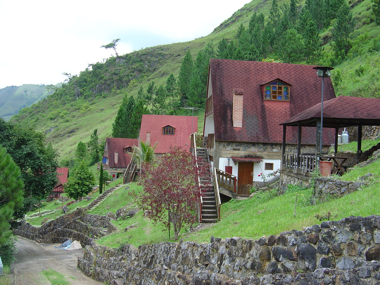 Alpine-style Houses in Caripe (Monagas State), Venezuela.